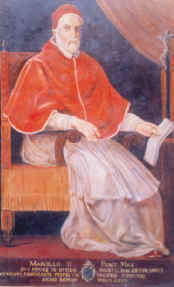 Pope Marcellus II (1501-1555)